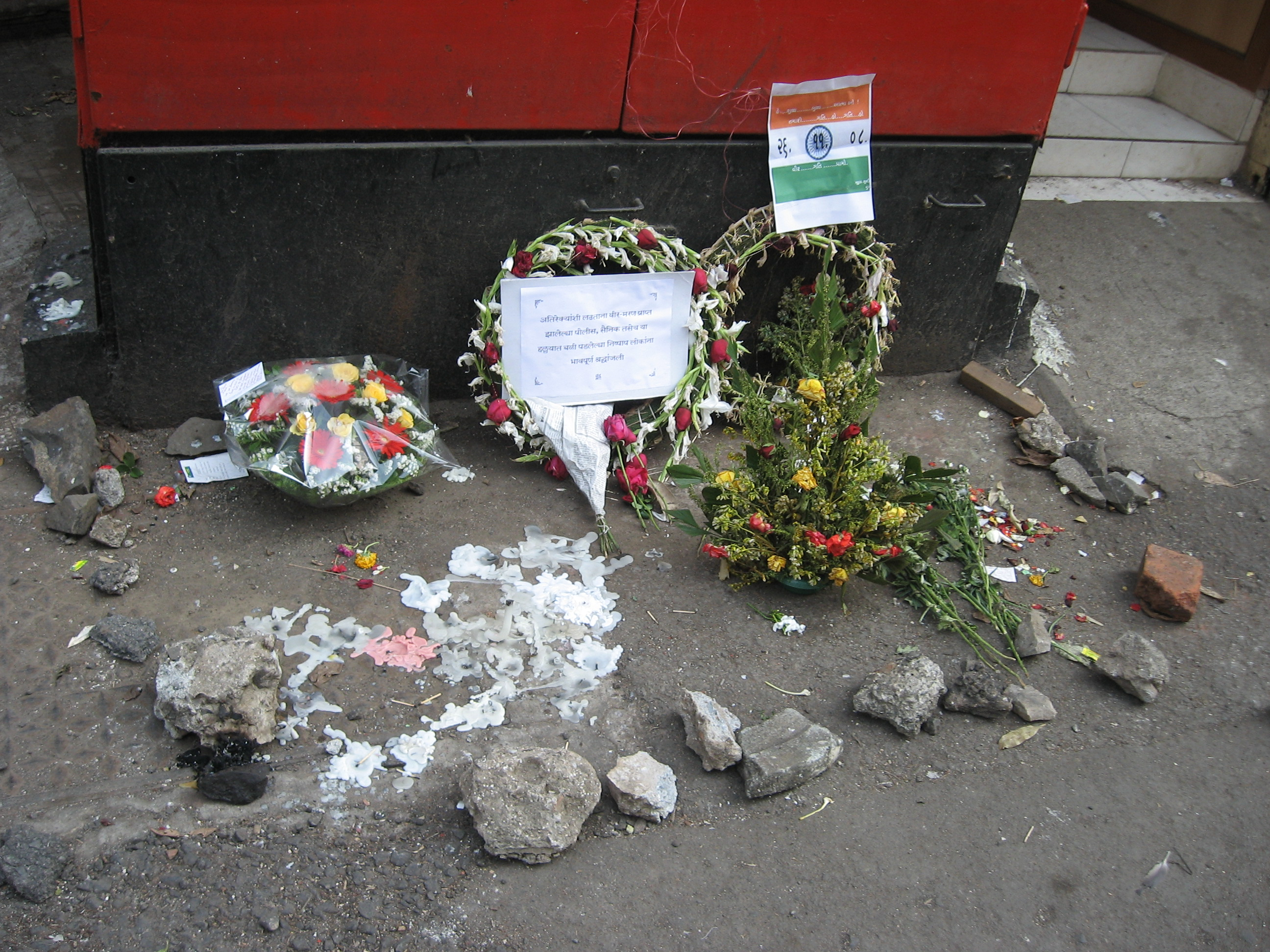 The location of the spot where police officers Hemant Karkare, Ashok Kamte, Vijay Salaskar were gunned down by terrorists during the November 2008 Mumbai attacks